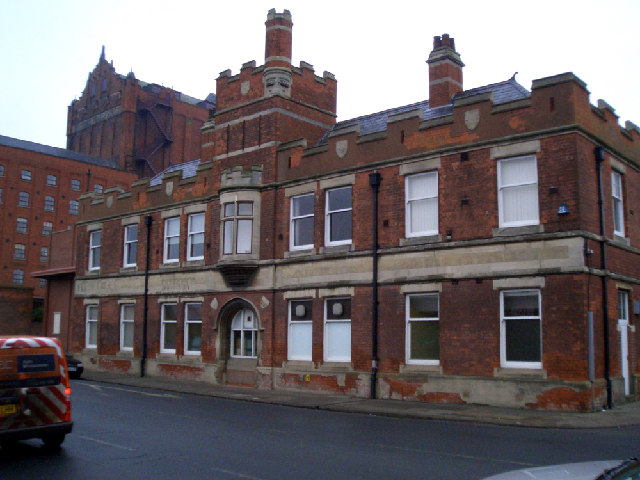 The old Castle Press Building, Grimsby. This building is situated in Victoria Street North, Grimsby. According to Pevsner it was originally built in 1859 as a barracks - hence the castellations. Used by the 1st Lincolnshire Volunteer Artillery (later RGA (TF))